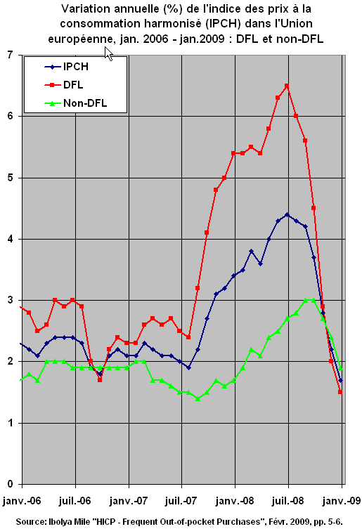 Annual change in the Harmonized Index of Consumer Prices (HICP) in the EU, Jan.2006 to Jan.2009 : Frequent Out-of-pocket Purchases (FROOPP) and non-FROOP.